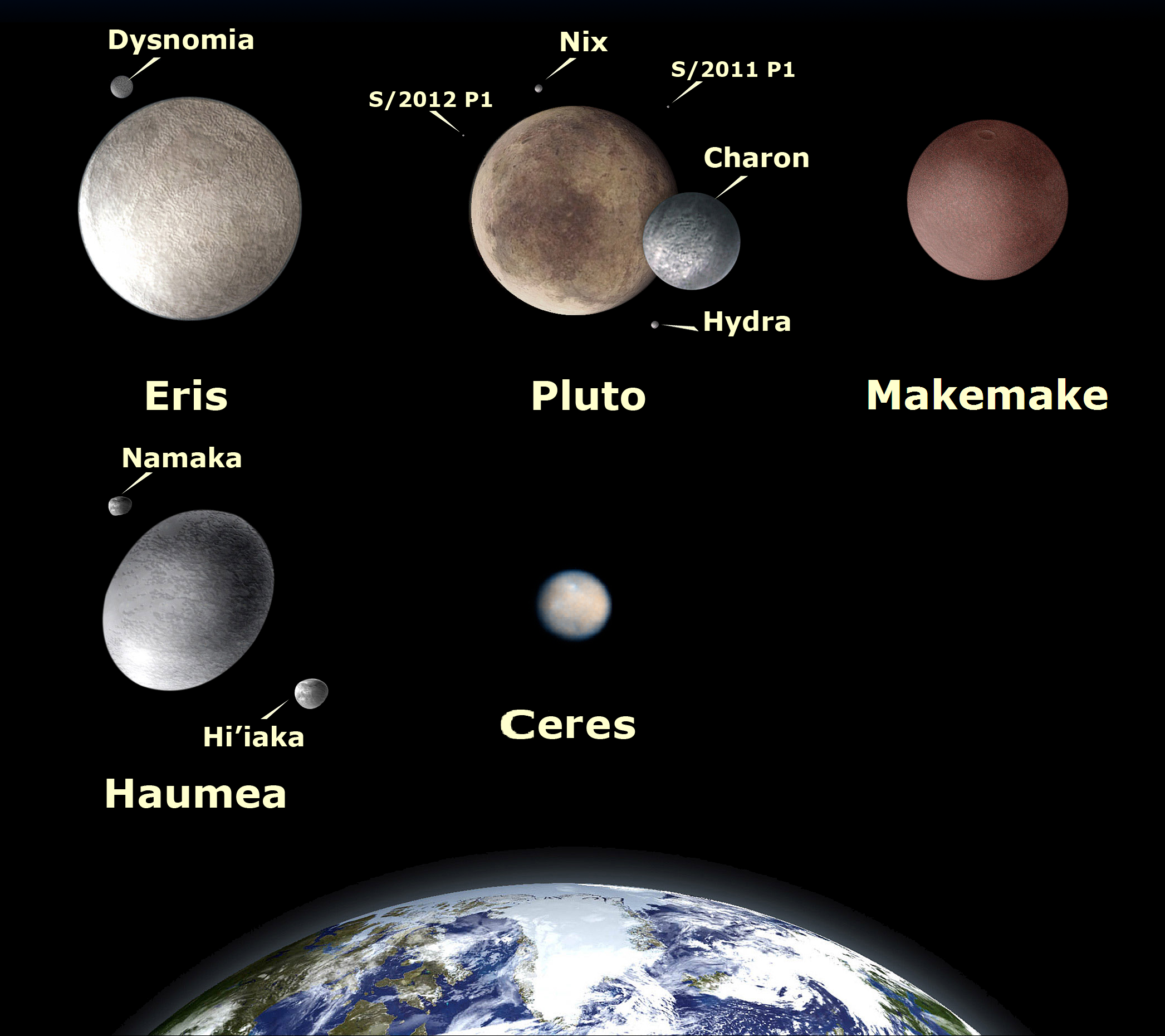 Comparison of the five identified dwarf planets: Eris, Pluto, Makemake, Haumea, and Ceres. Text properties for future modifications: Font is Verdana Size is 100 pt for title, 72 pt for objects, 48 pt for moons Color is FFFFCE Style is Bold Anti-aliasing (in Photoshop) is Sharp